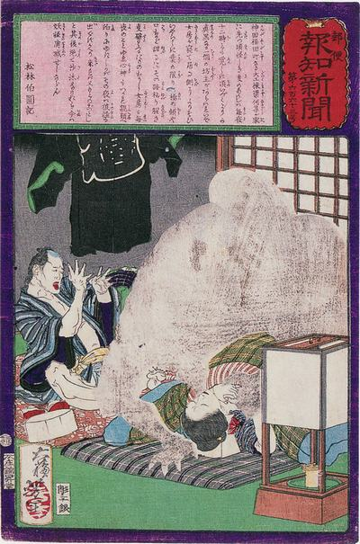 Kurobōzu (黒坊主) from the Yūbin-hōchi-shinbun (Postal News) (郵便報知新聞 663号; No 663. The black monster attacking the wife of a carpenter in Karda.)